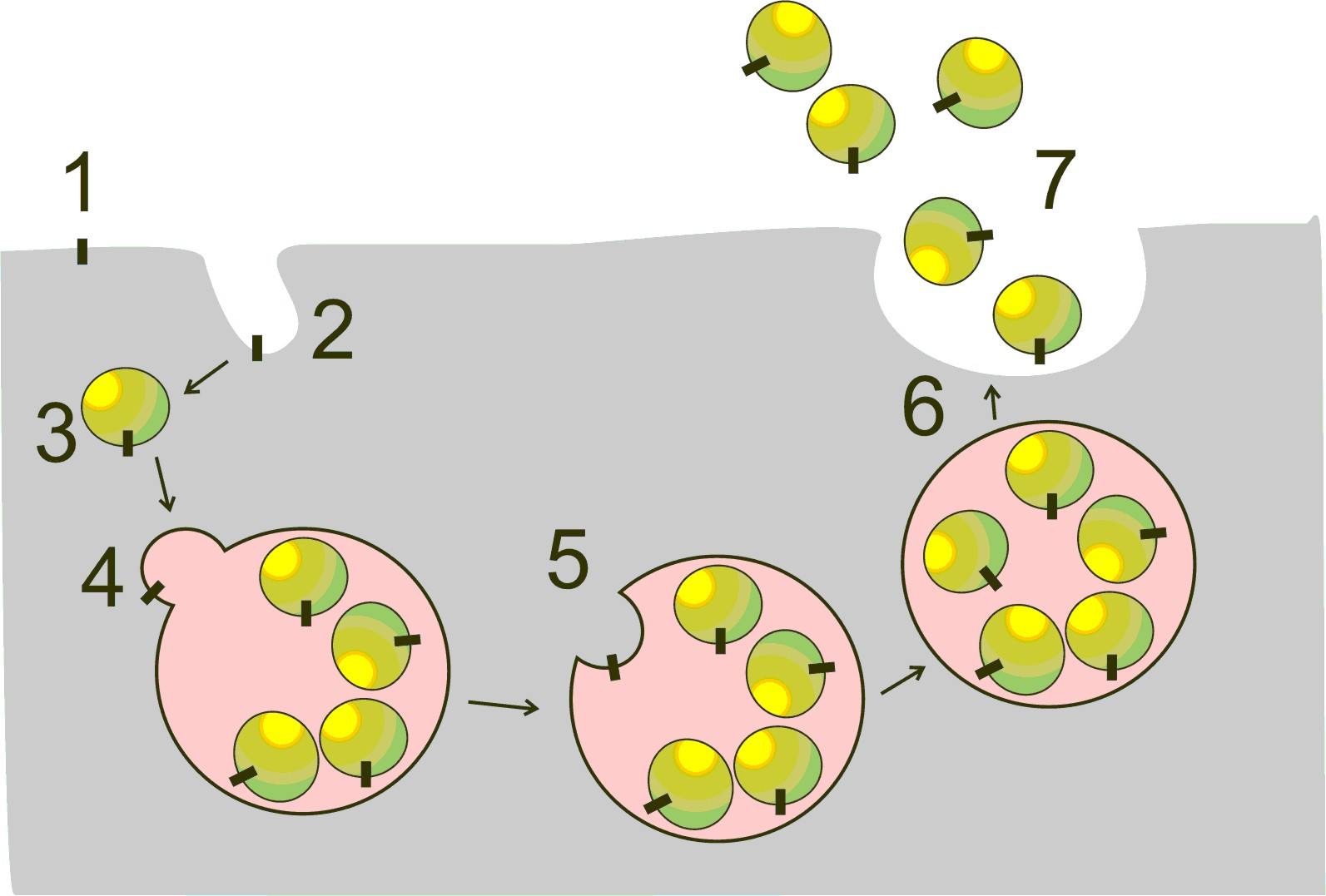 exosome vesicles formation and liberation jpg